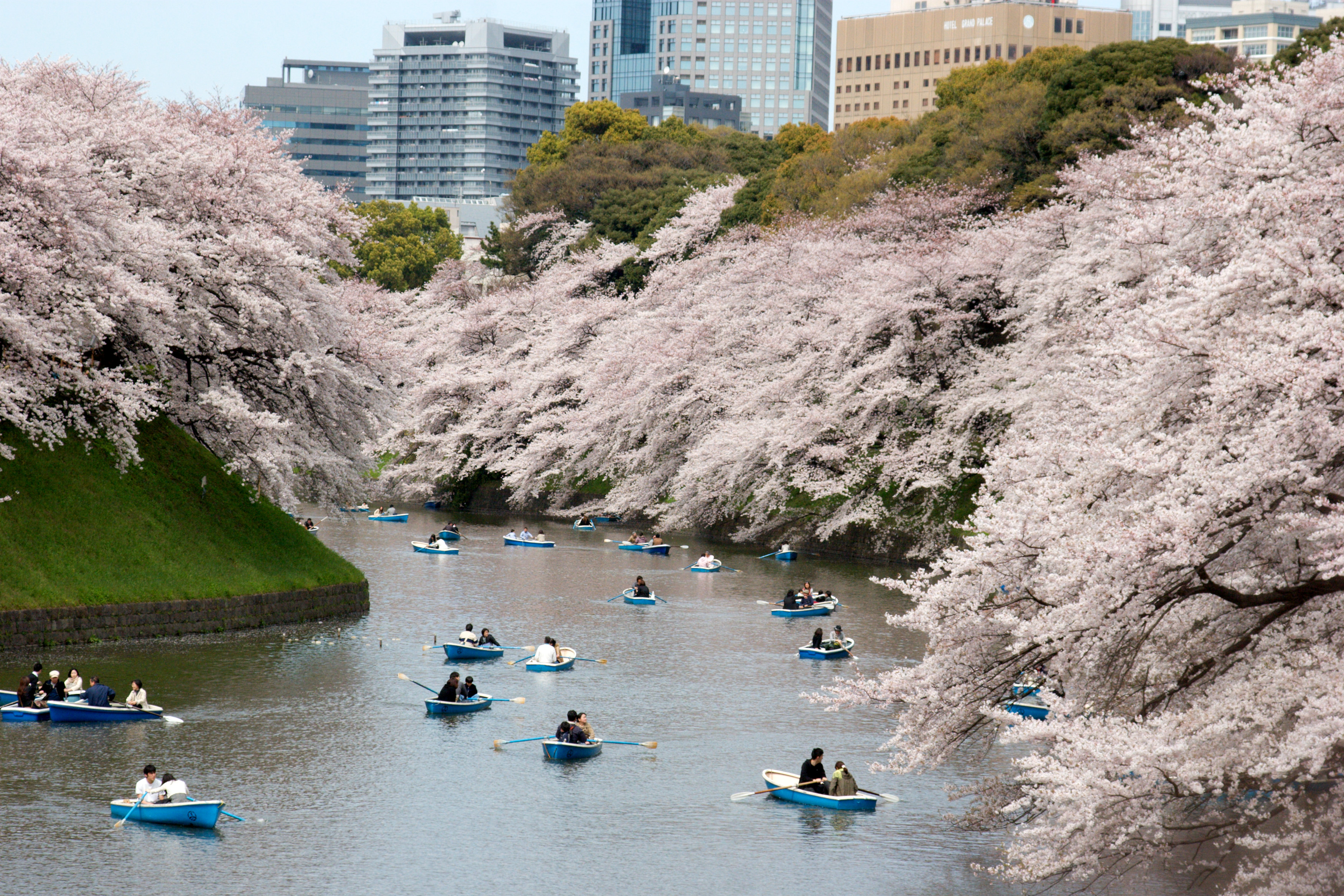 Chidorigafuchi